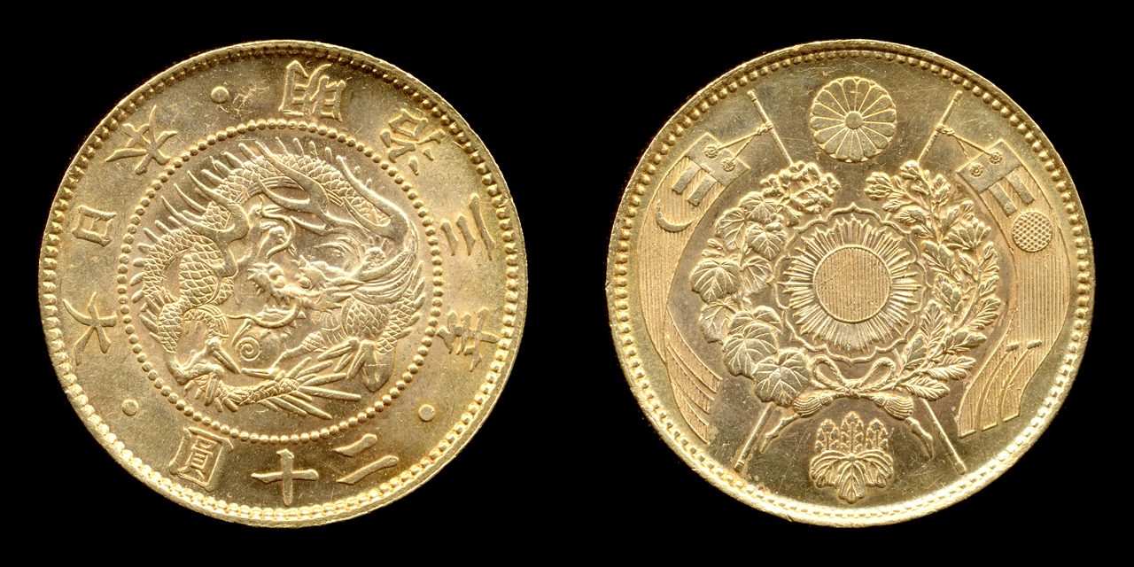 20yen-M3